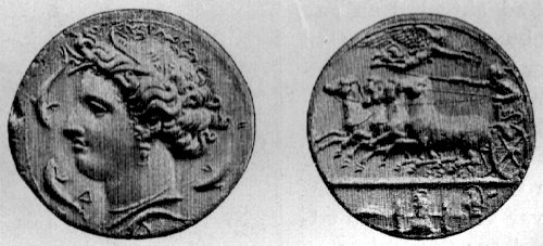 10 drachm coin by Syracuse